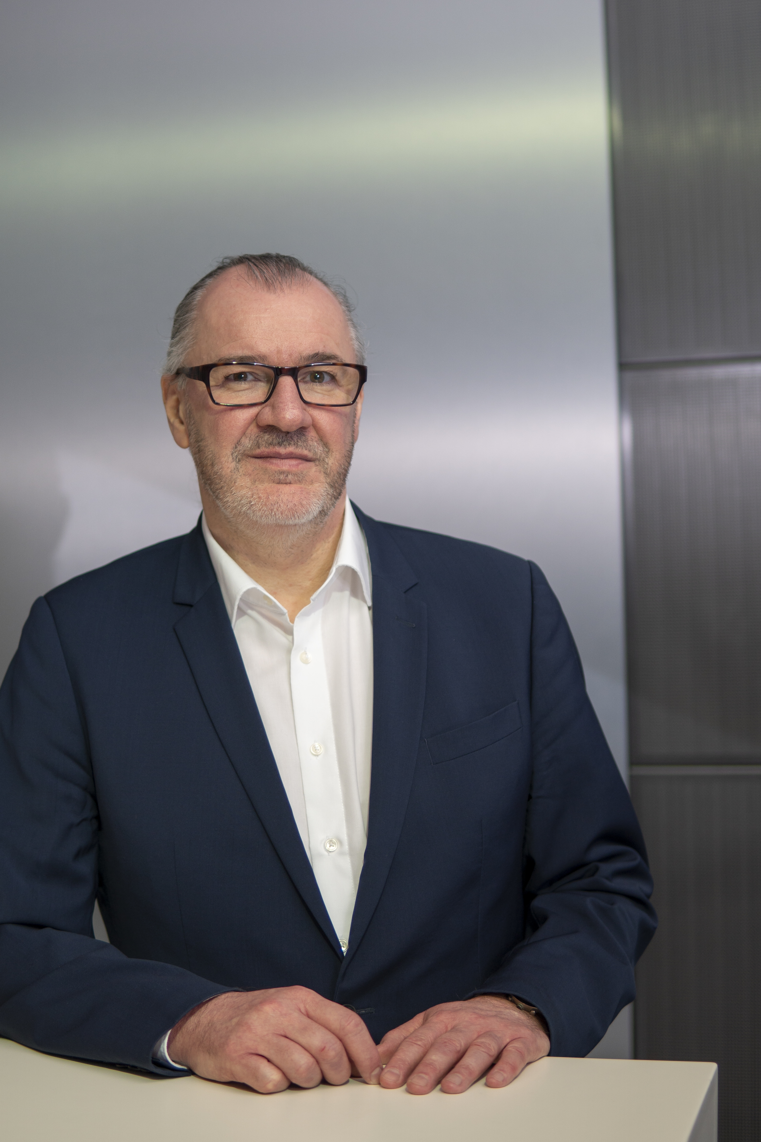 Representative Picture of Prof. M. Hauswirth